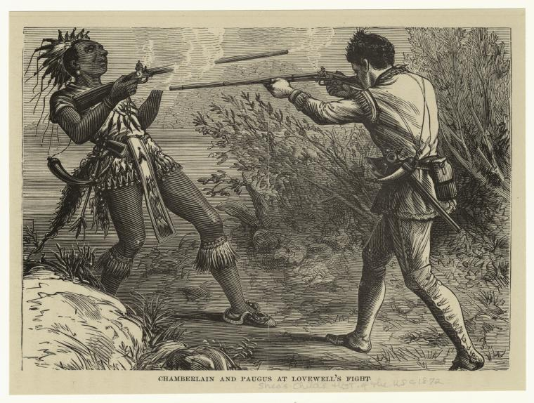 Chamberlaine and Paugus At Lovewells Fight Engraving from John Gilmary Shea A Child's History of the United States Hess and McDavitt 1872.jpg